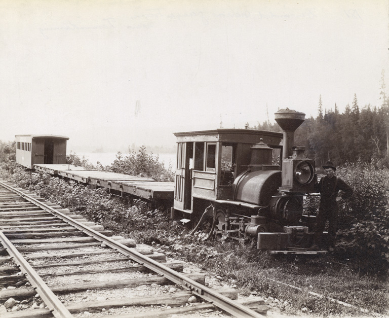 MP-0000.800.6 Old narrow gauge train at Haileybury, ON, 1889 1884-1894, 19th century Notman photographic Archives - McCord Museum MP-0000.800.6 Vieux train pour voie étroite à Haileybury, Ont., 1889 1884-1894, 19e siècle Archives photographiques Notman - Musée McCord To see the image file on the McCord Museum website, click on the following link: Pour voir la fiche descriptive de cette photographie sur le site Web du Musée McCord, cliquer le lien suivant